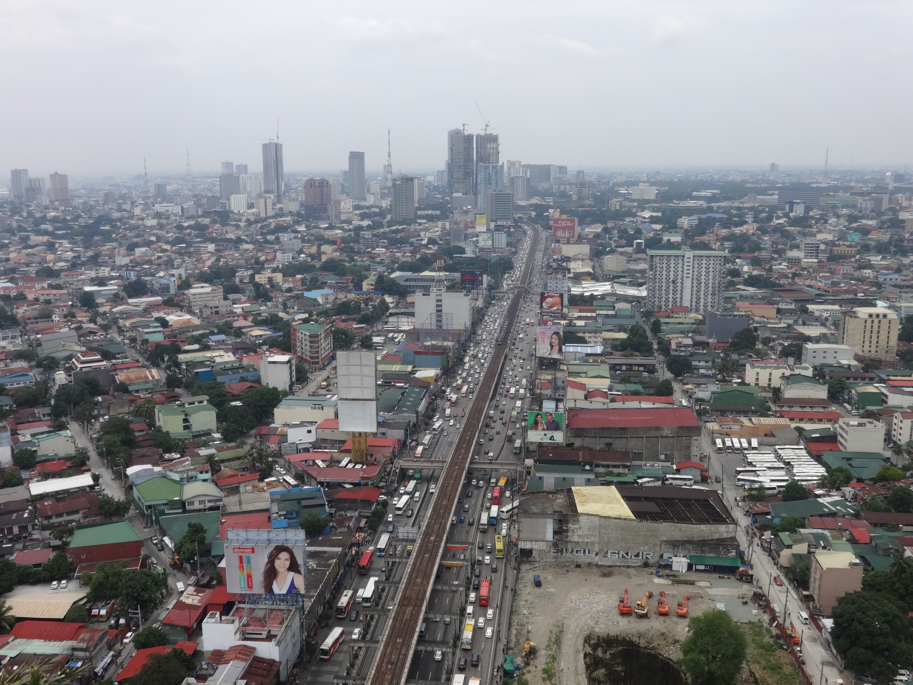 Aerial view of EDSA in Quezon City